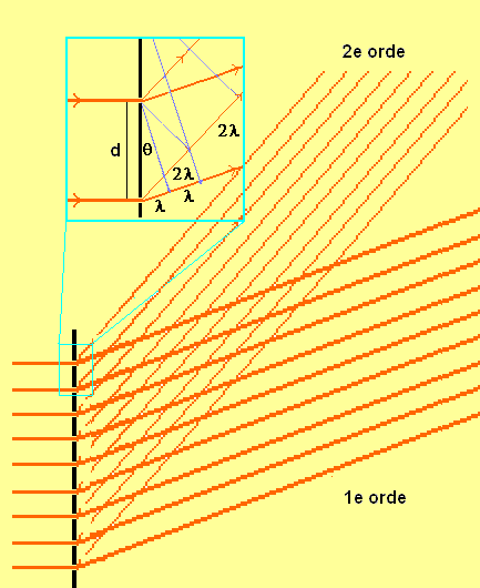 First and second order diffraction from a grating.